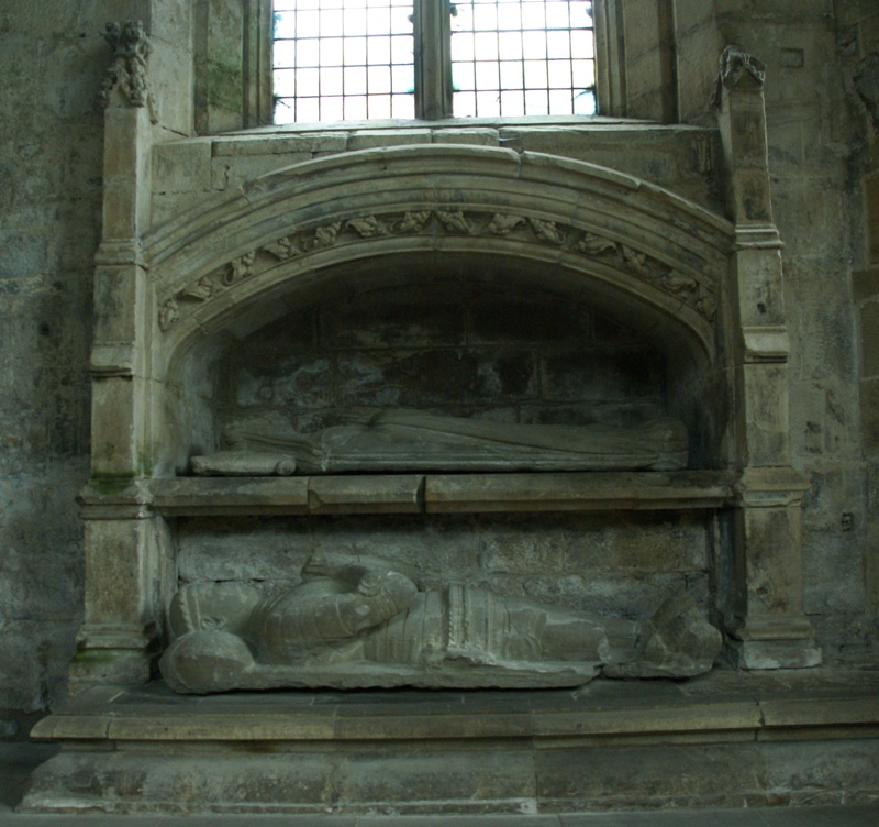 Seton Collegiate Church, East Lothian, Scotland - effigies